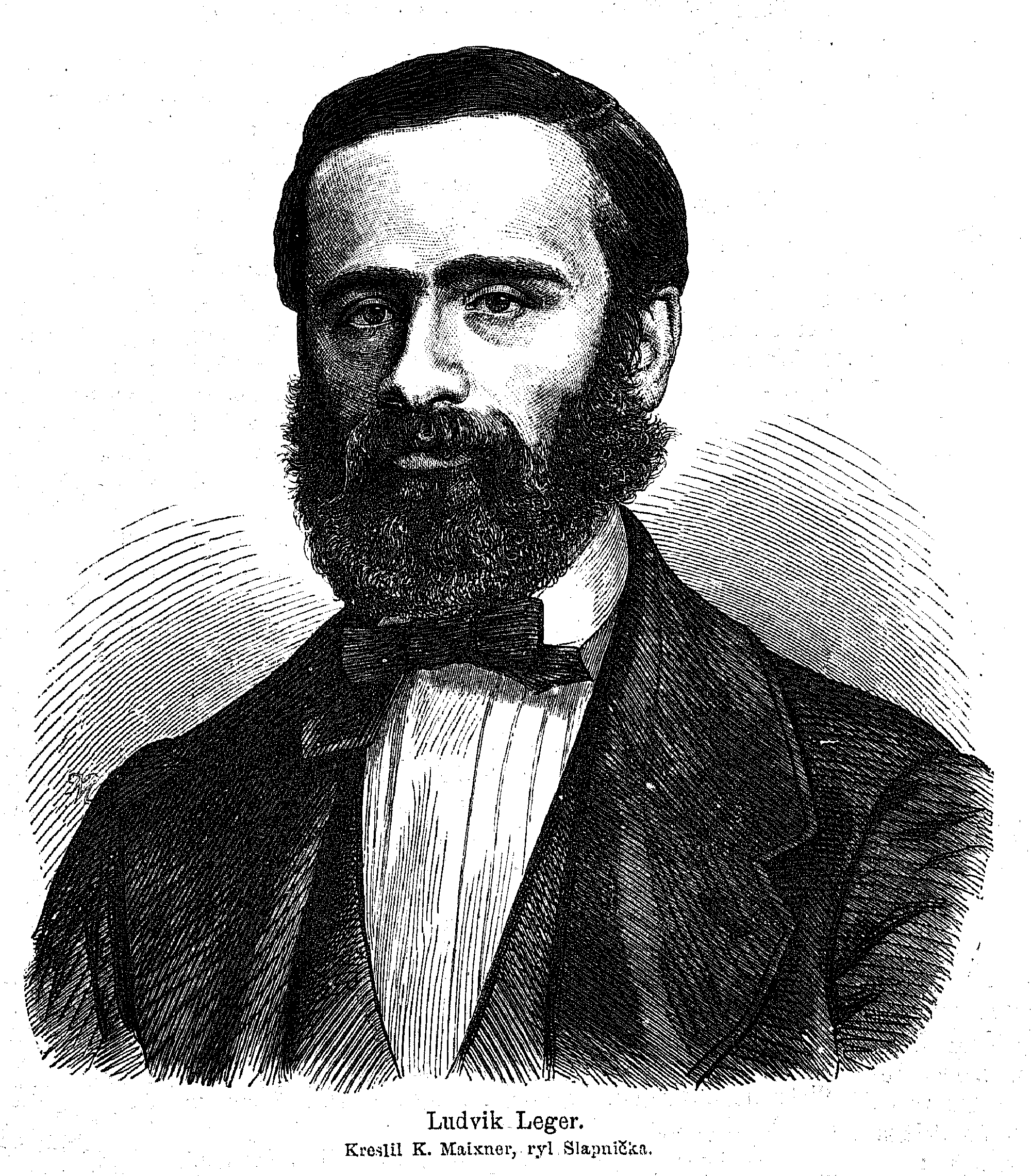 Portrait of Louis Léger (1843 - 1923), French slavist. The caption contains a Czech translation of his first name (Ludvík)